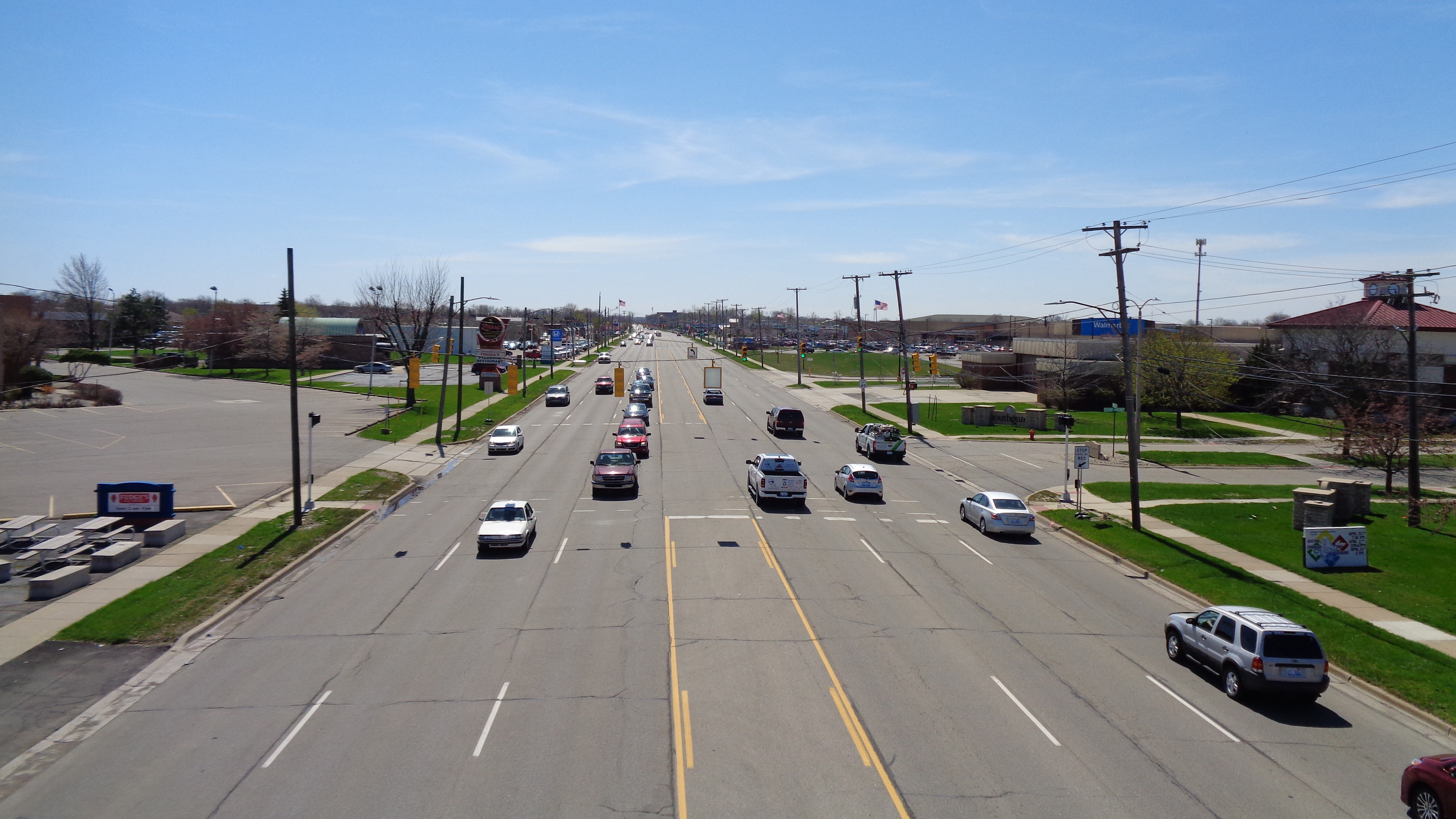 Southgate, MI along Dix Toledo Road